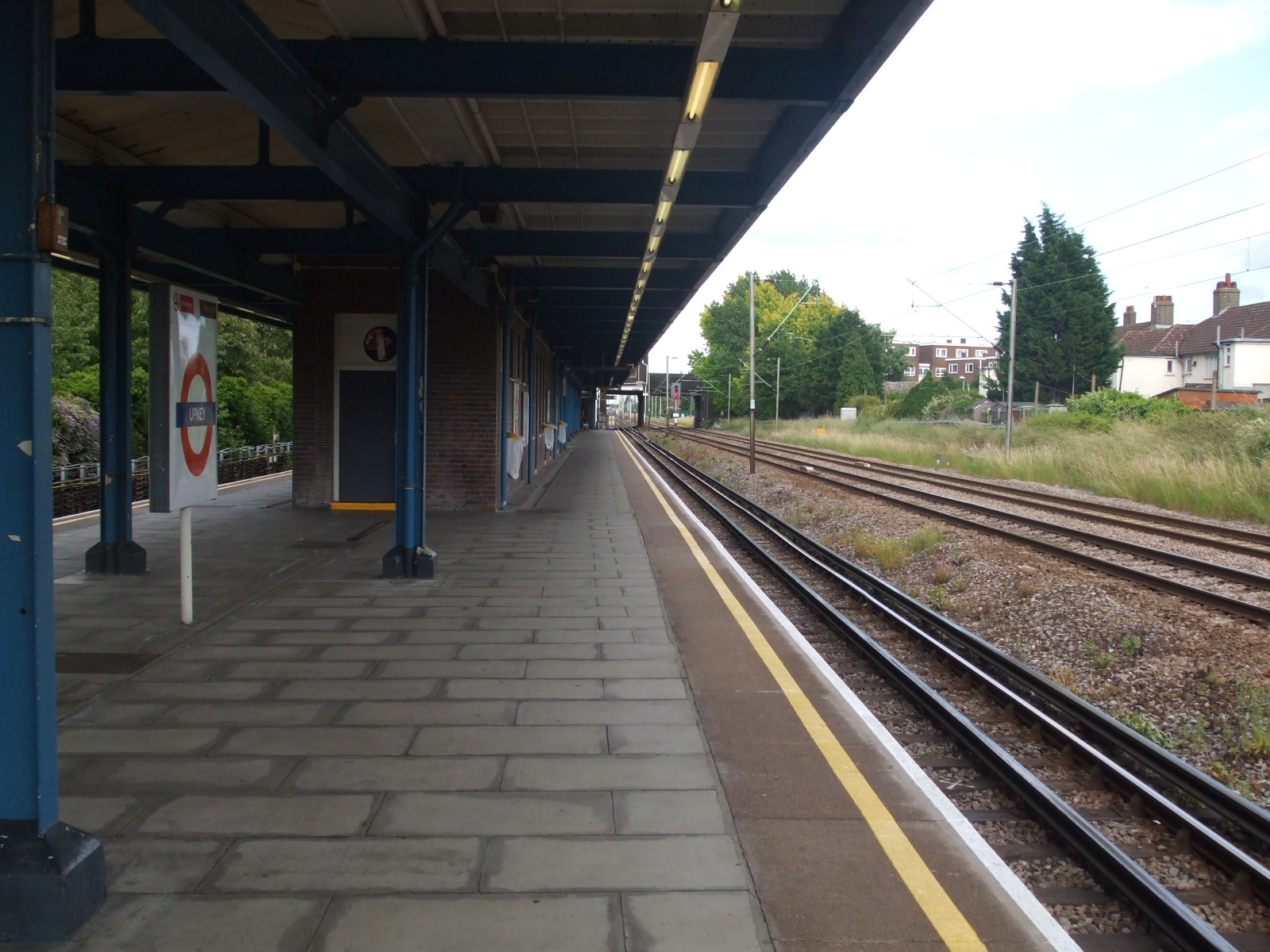 Upney tube station looking eastbound from island platform westbound face. London, Tilbury and Southend Railway (operator: c2c) tracks are to the south of the District Line.